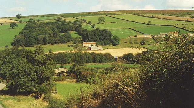 Eskdale, near Duck Bridge. Looking across Eskdale from near Danby Castle to Duck Bridge and Park House.